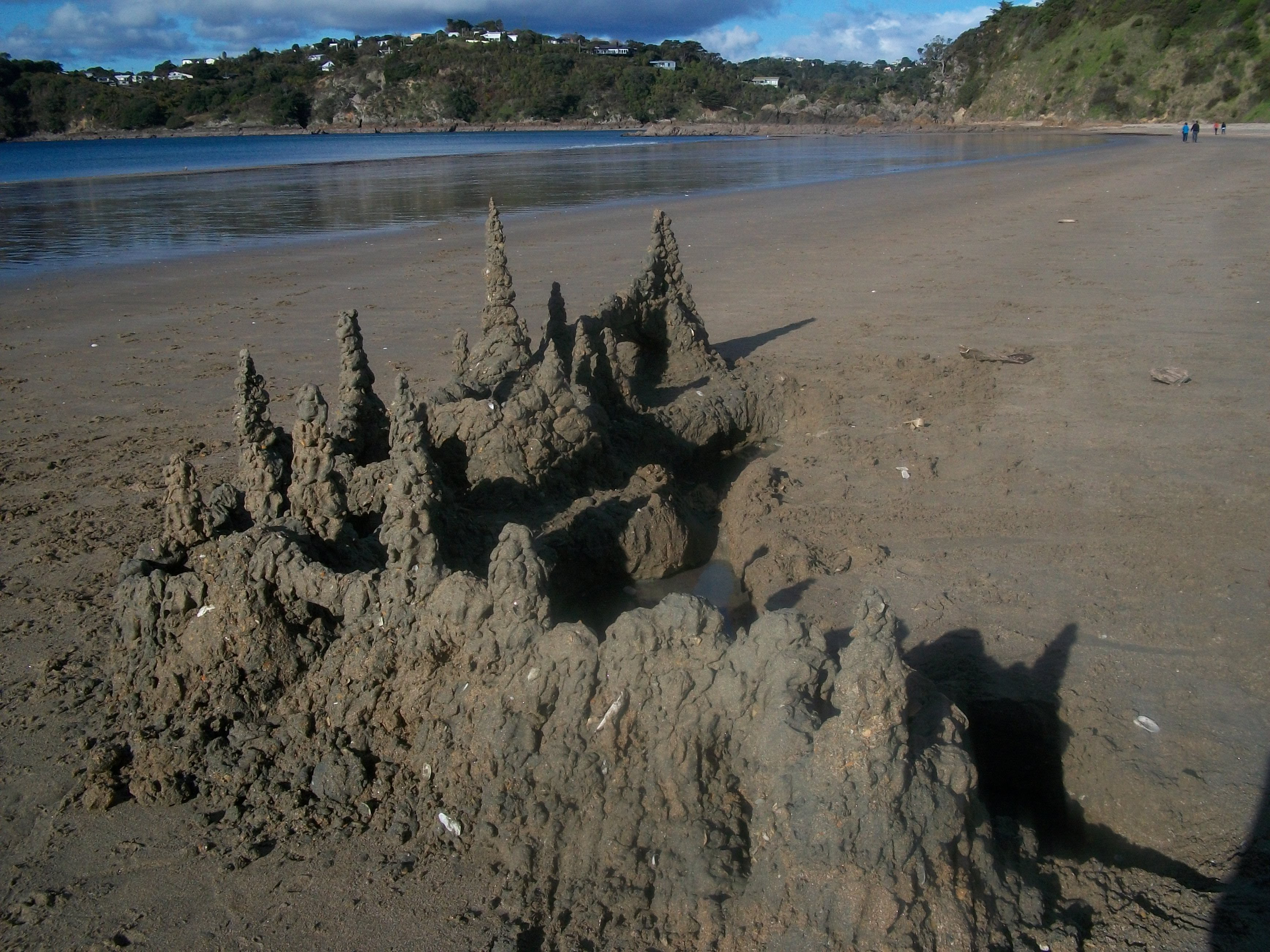 According to a New Zealander named Debbie, this is Oneroa Beach, sometimes called Big Oneroa. It is on Waiheke Island, near Auckland, New Zealand. She further informs us that Little Oneroa beach is the small one around the rocks in the distance. Waiheke has beaches with great sand for sandcastles. I dripped this one in a half an hour. This picture is public domain from An American's perspective on New Zealand (see notice at top of article). Questions? Ask here.